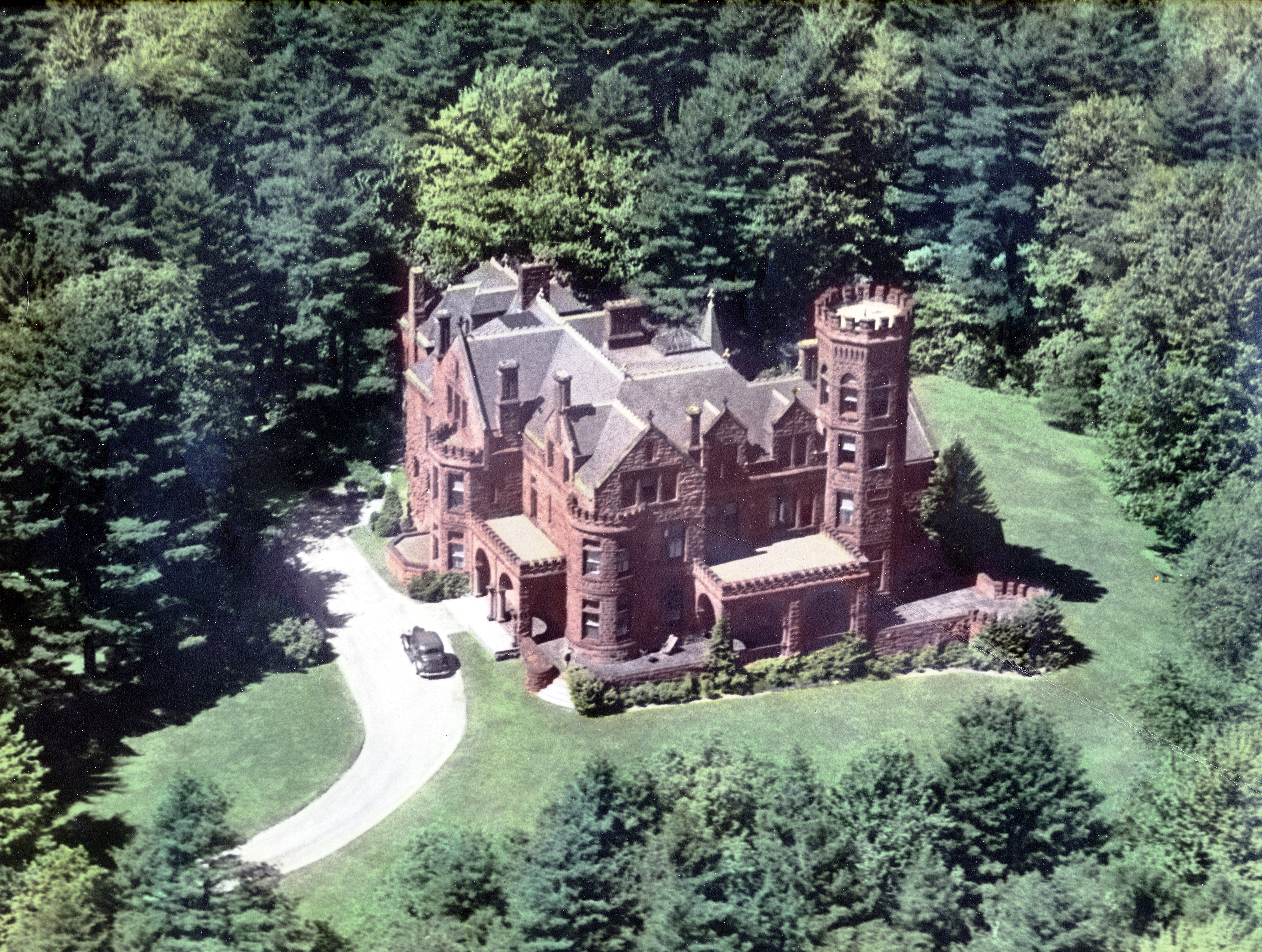 Known as 'The Casle' built in 1888, torn down in 1955